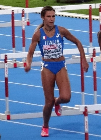 Luminosa Bogliolo at the 2017 European Athletics U23 Championships